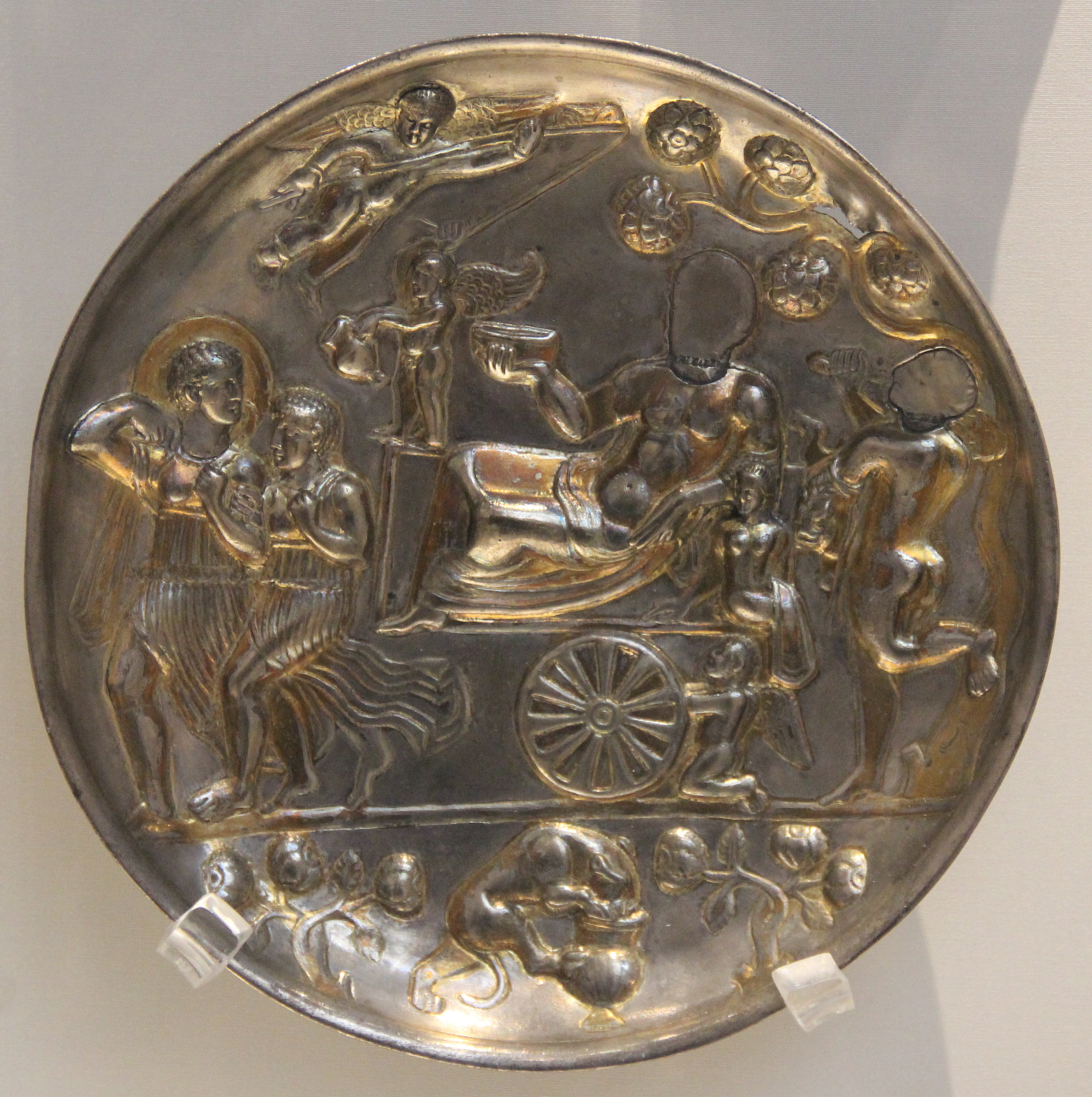 Badakshan patera Triumph of Bacchus Ancient Iran Gallery, British Museum, London, England, UK. Complete indexed photo collection at .